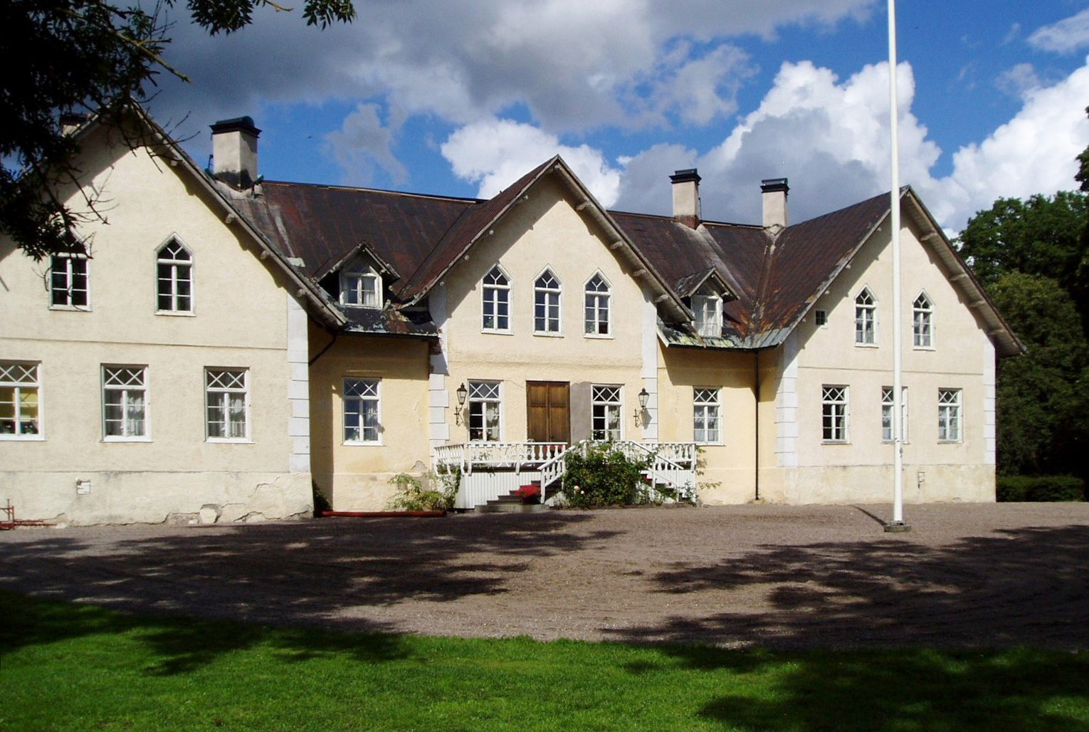 Beateberg mansion, Norrtälje municipality, Sweden